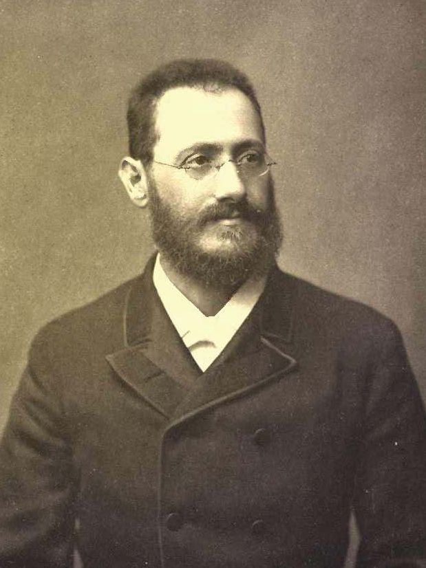 Photograph of Dr Alexander Kohut